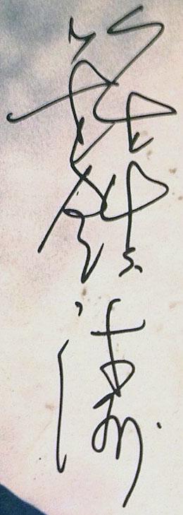 This is Kenny Chung's signature.